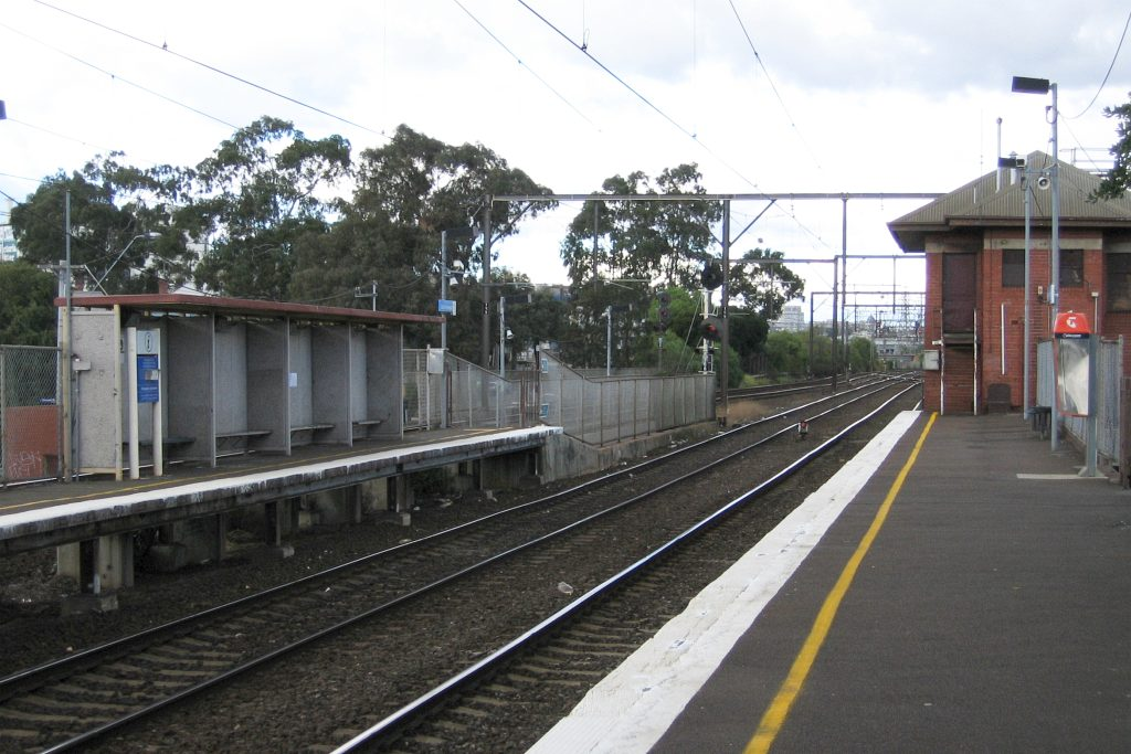 Overview of South Kensington railway station, Melbourne from the down end, citybound platform 1 to the left, disused signal box and platform 2 to the right.